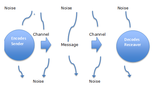 Linear Model of Communication